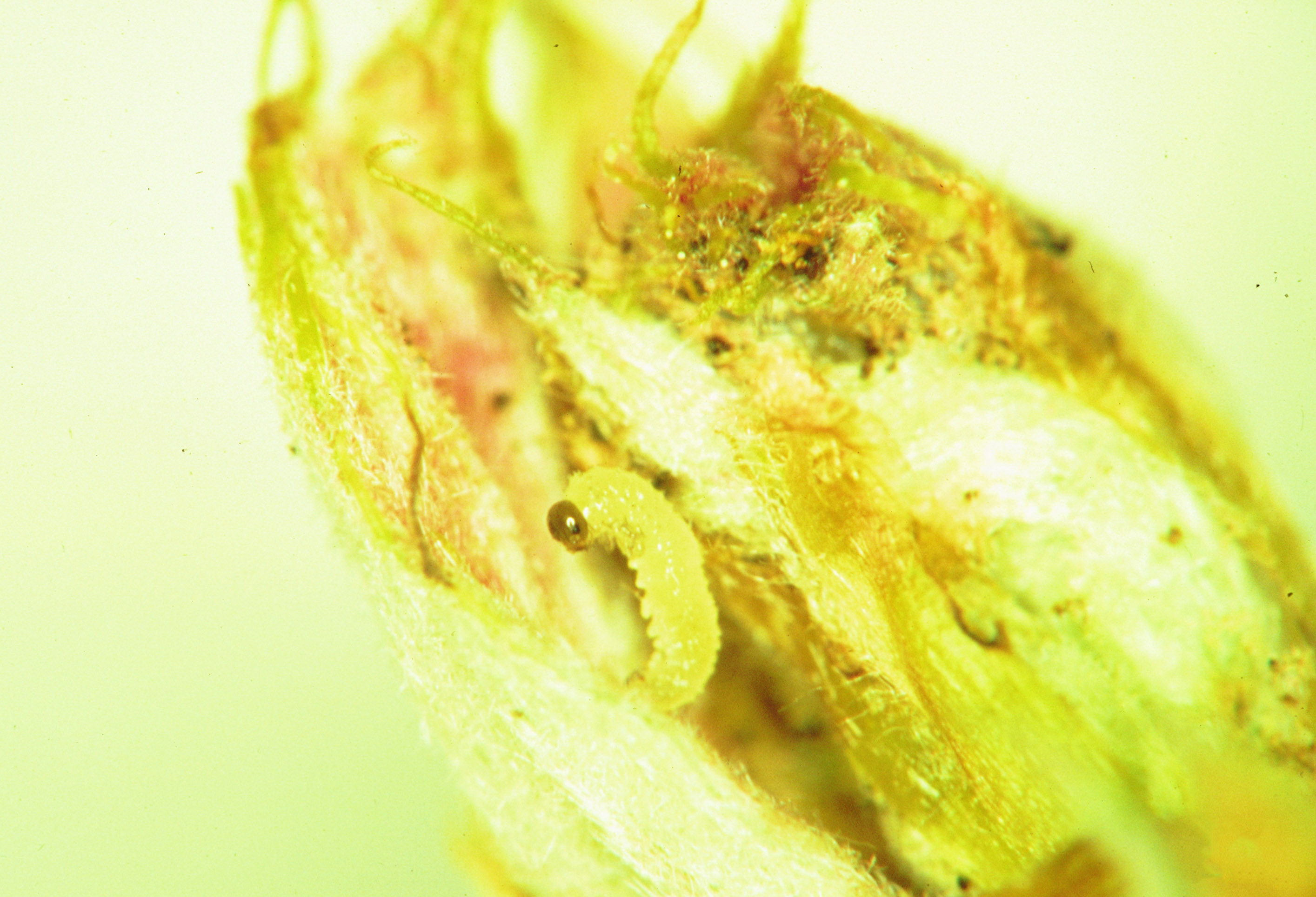 Oak leaf roller larvae, Archips semiferanus, in an oak bud